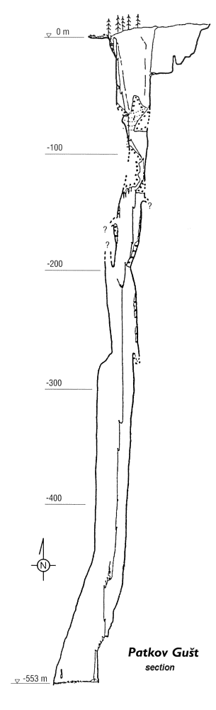 The cavers descended to the Patkov Gust - the world's second deepest shaft (-553 m).